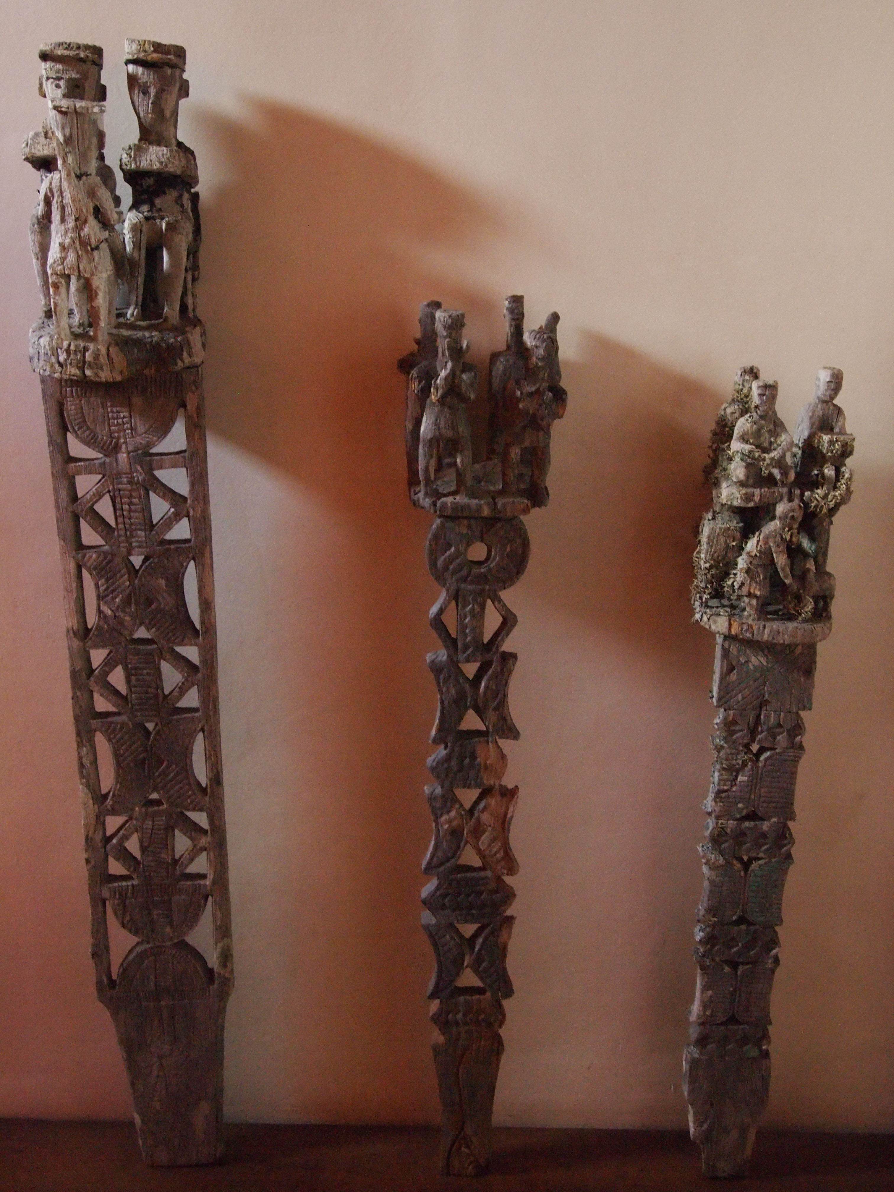 alo alo three sizes madagascar